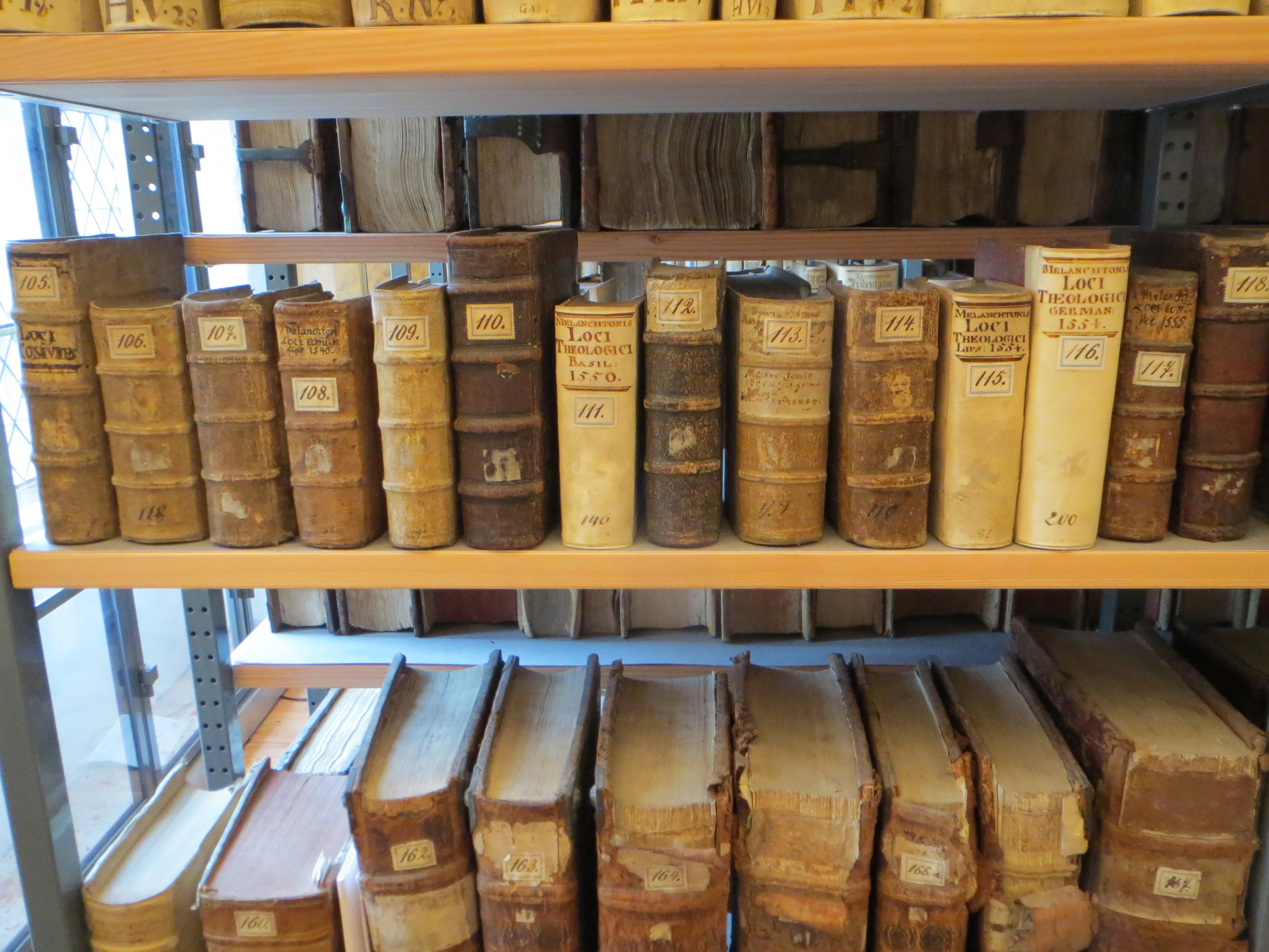 Ministerial Library Greifswald